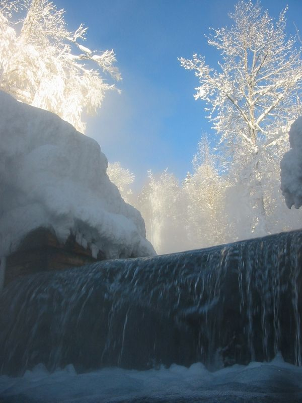 View from Liard River Hot Springs Provincial Park